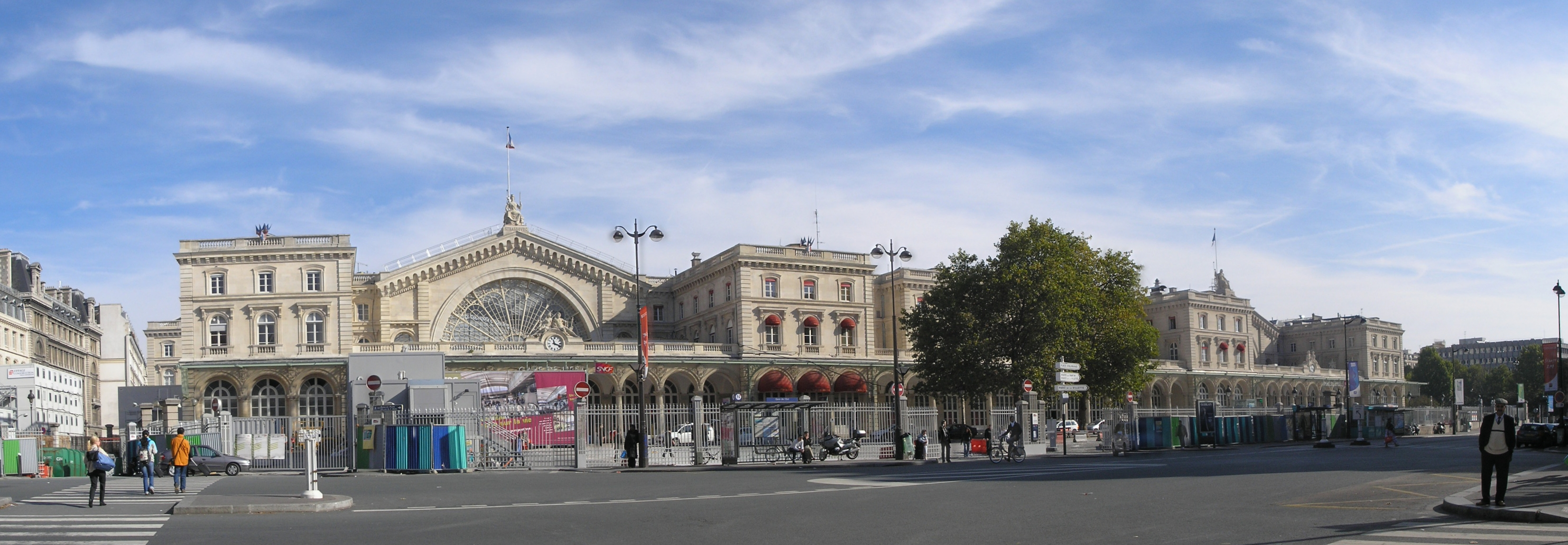 The Gare de l'Est in Paris